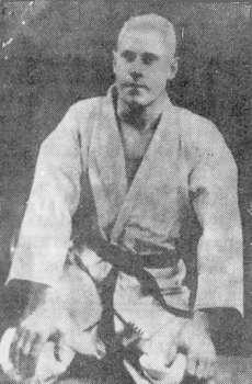 Master Georges London in France 1955